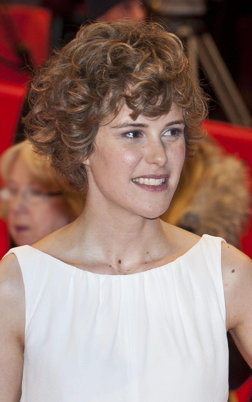 Swiss actress Carla Juri after the European Shooting Stars Award Ceremony